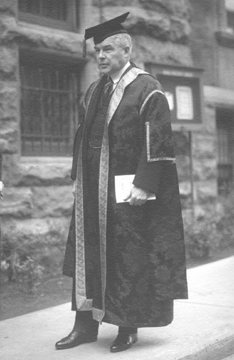 Edward Wentworth Beatty, 1942 Subject Description PORTRAIT: CHANCELLOR SIR EDWARD W. BEATTY IN CONVOCATION ROBE Source: McGill University archives